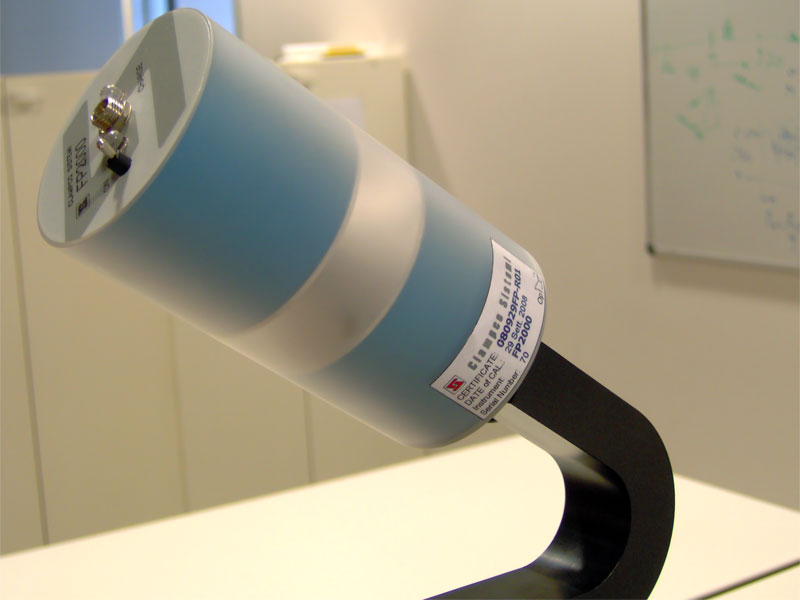 FP2000 is a sensor made up of a wide-band omnidirectional biconical active antenna sensitive to electric fields in the range 100 KHz ÷ 2500 MHz.